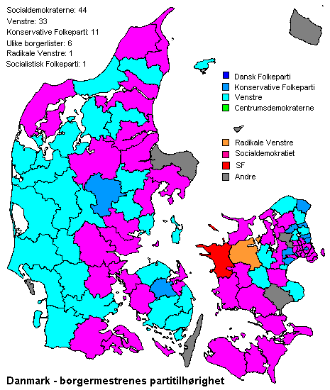 Mayors of Denmark - by municipalities